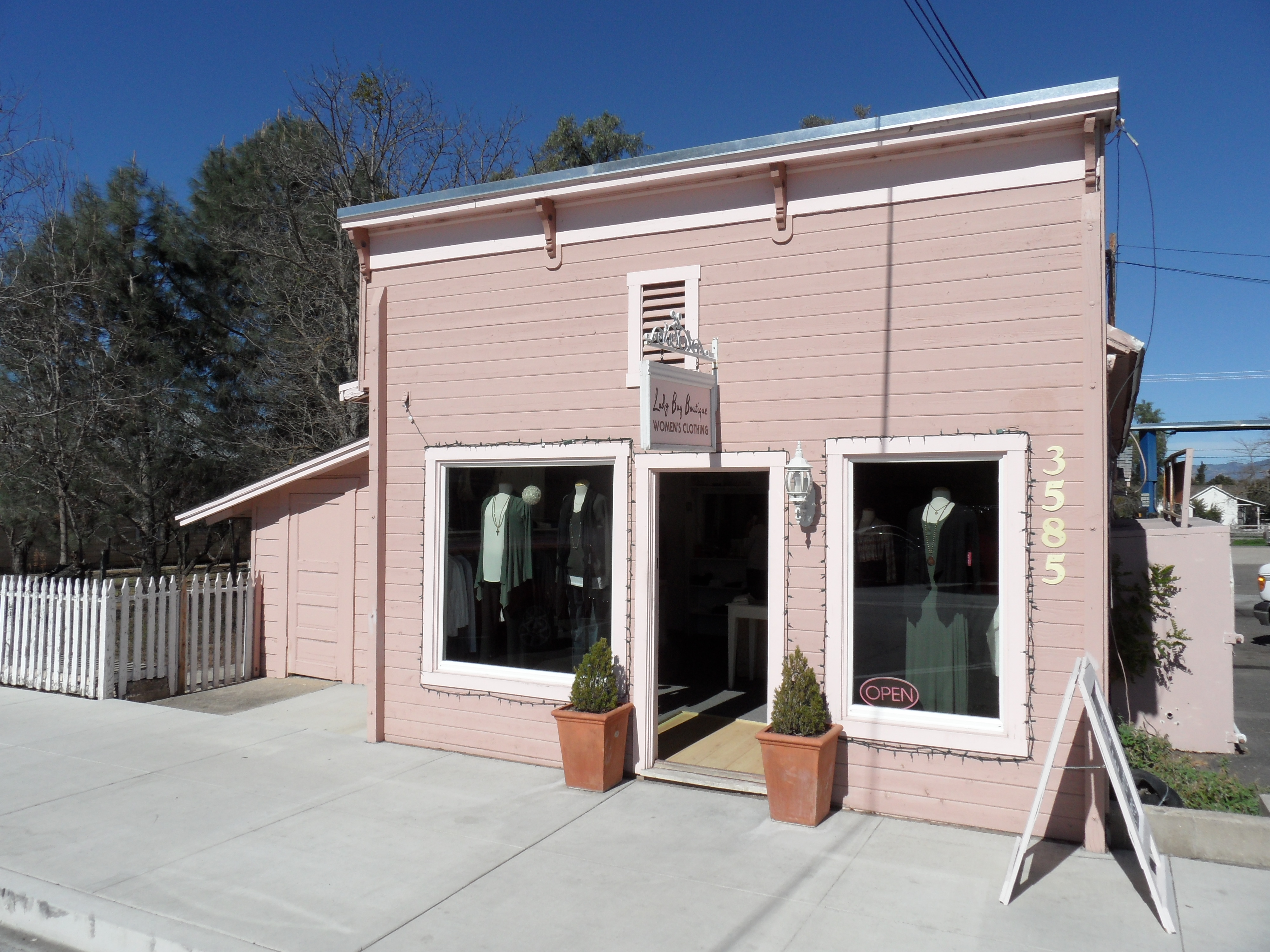 shop in Santa Ynez